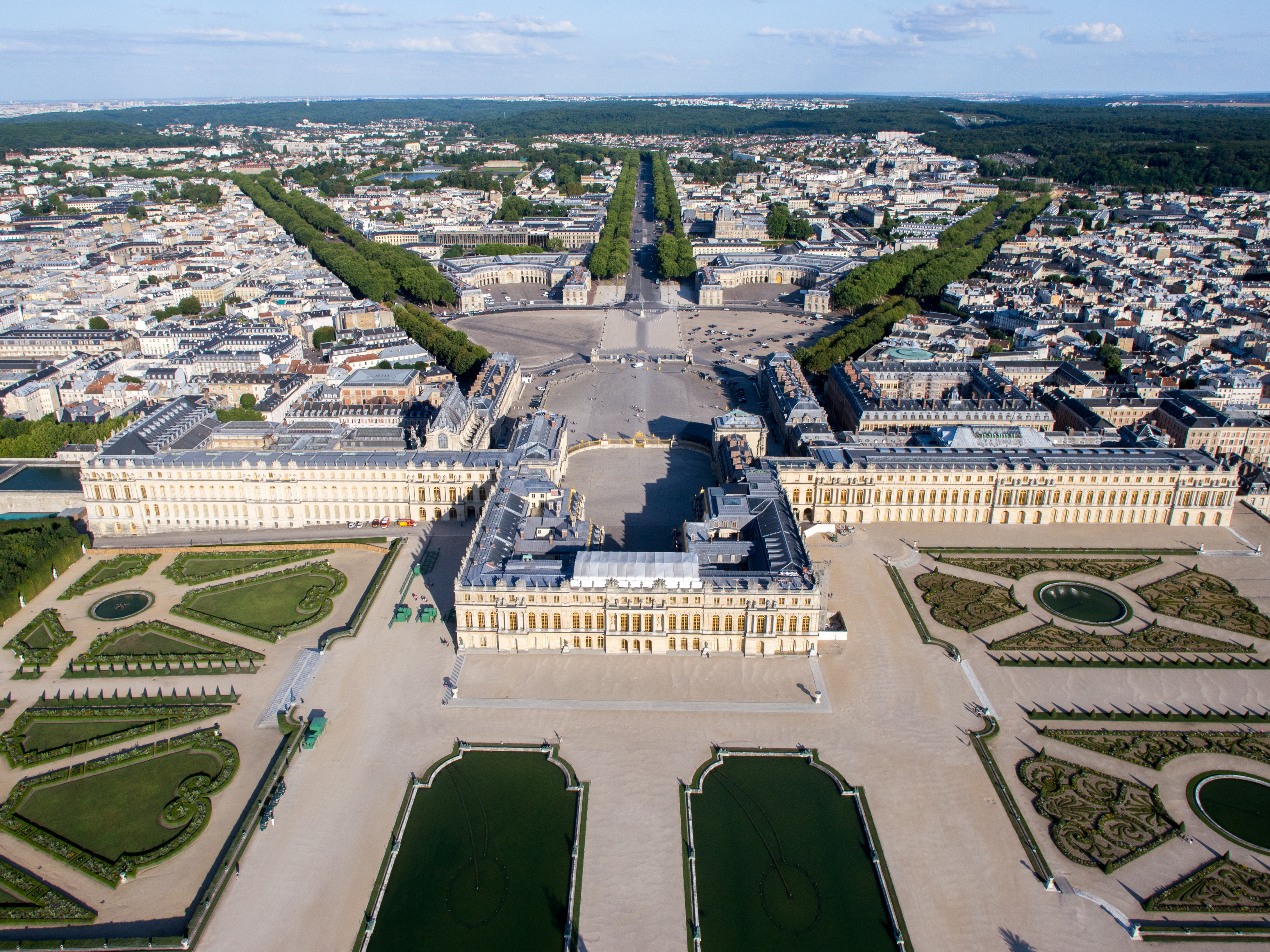 Aerial view of the Palace of Versailles, France